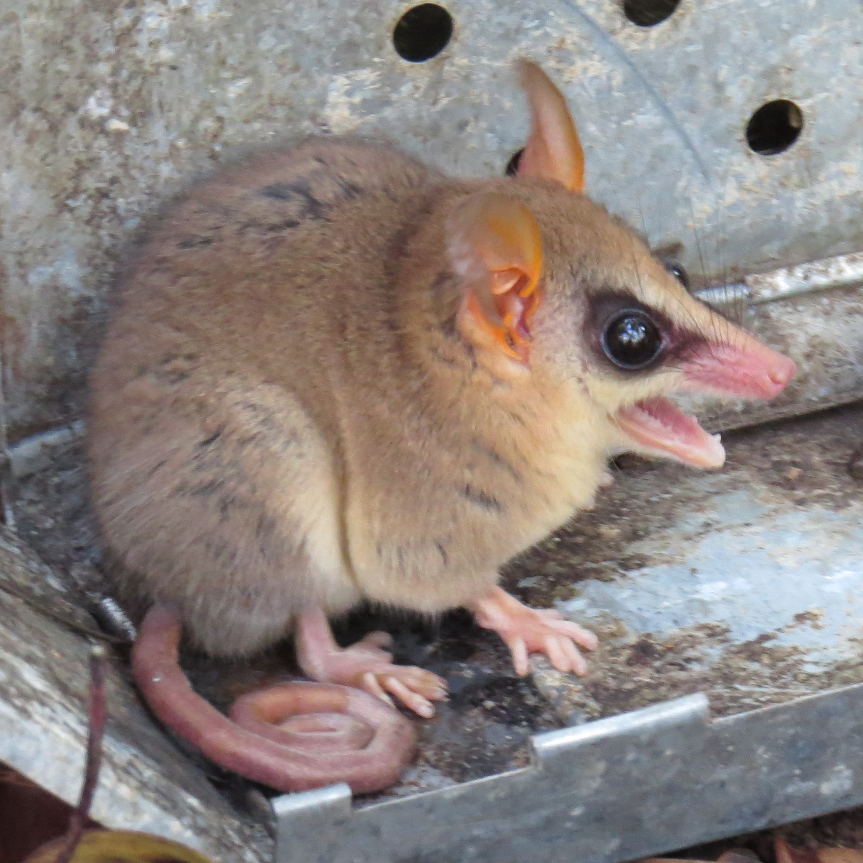 Gracilinanus agilis. Agile gracile opossum. Cuíca-graciosa. Sitting in a Sherman trap.